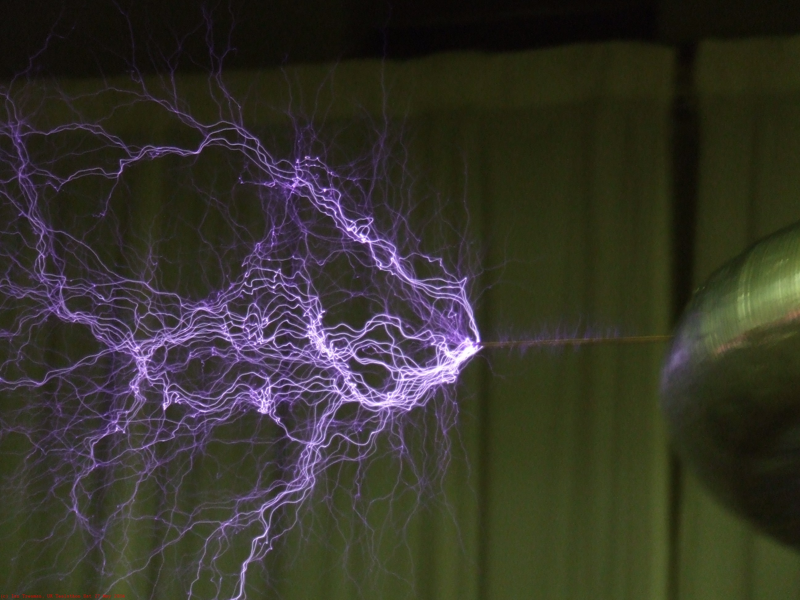 Z-pinches constrain the plasma filaments in an electrical discharge from a Tesla coil. Photo taken by Ian Tresman at the UK Teslathon in Derby, UK, on 27 May 2005.